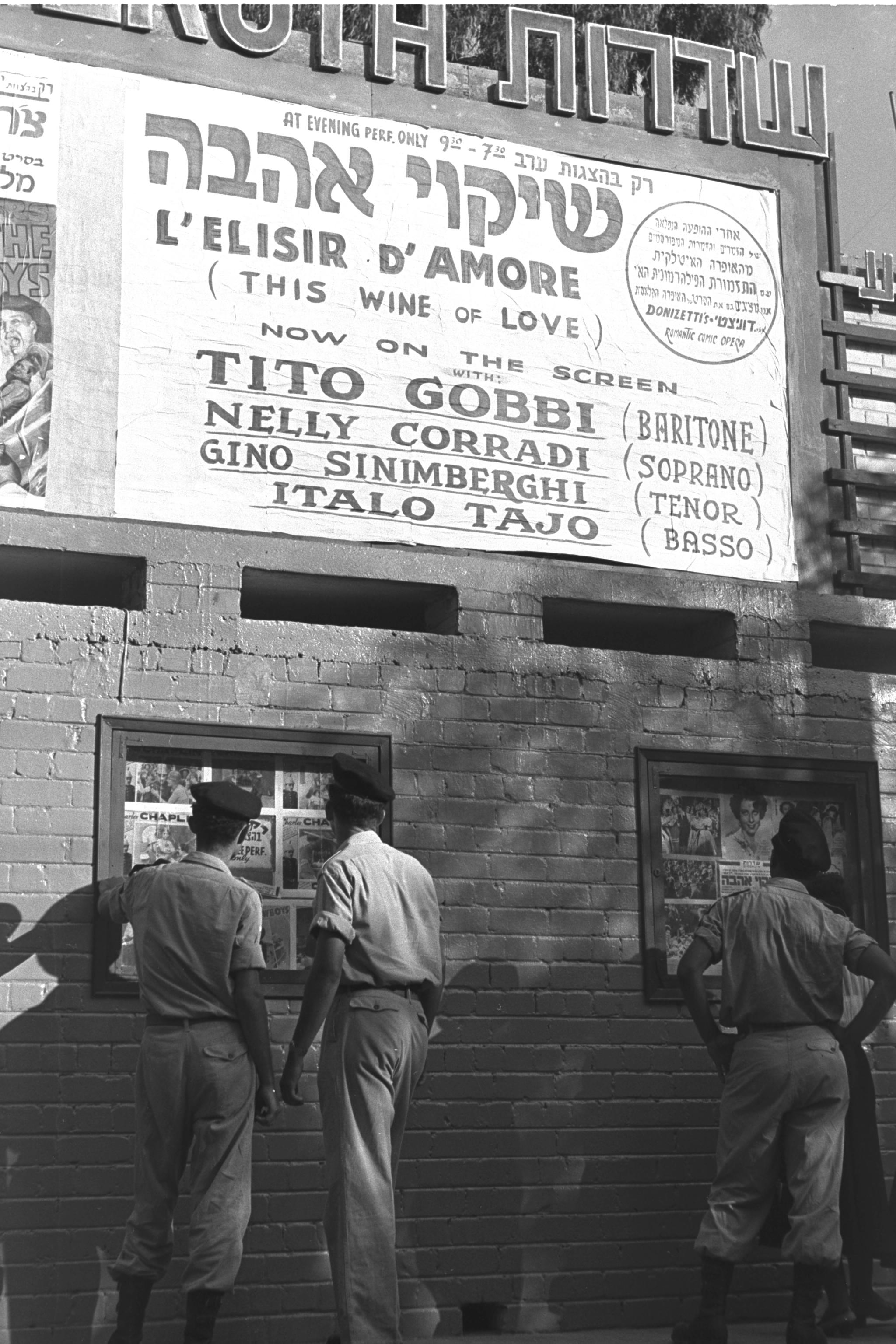 Sderot Cinema